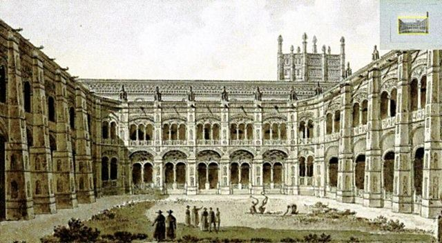 Cloister of the convent of Santa Engracia (Zaragoza) Author General Barón Lejeune